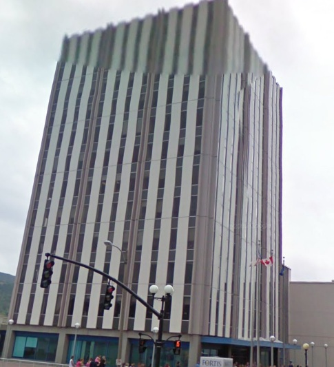 Fortis office building, downtown St. John's.